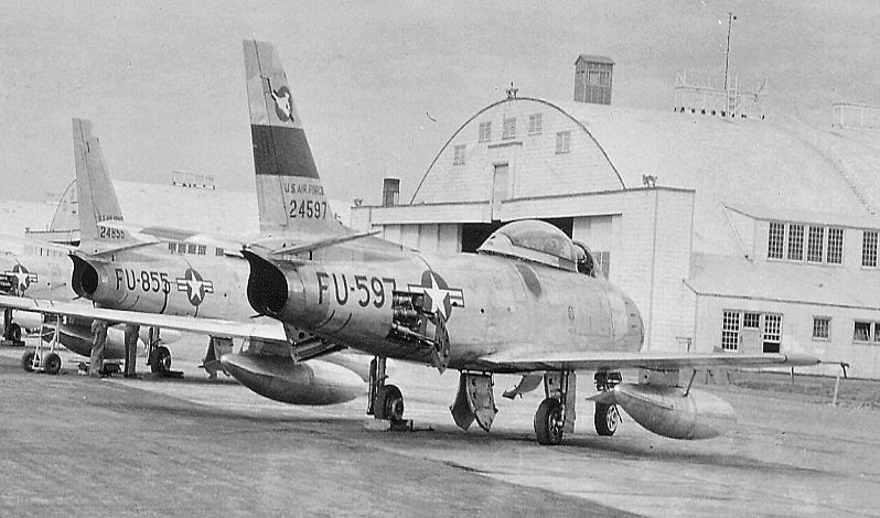 417th Fighter-Bomber Squadron - North American F-86F-30-NA Sabre - 52-4597 - Clovis AFB NM 1953